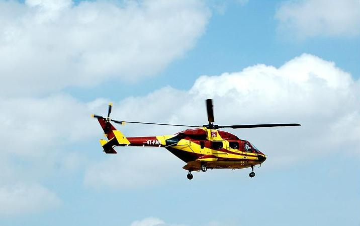 HAL Dhruv civilian